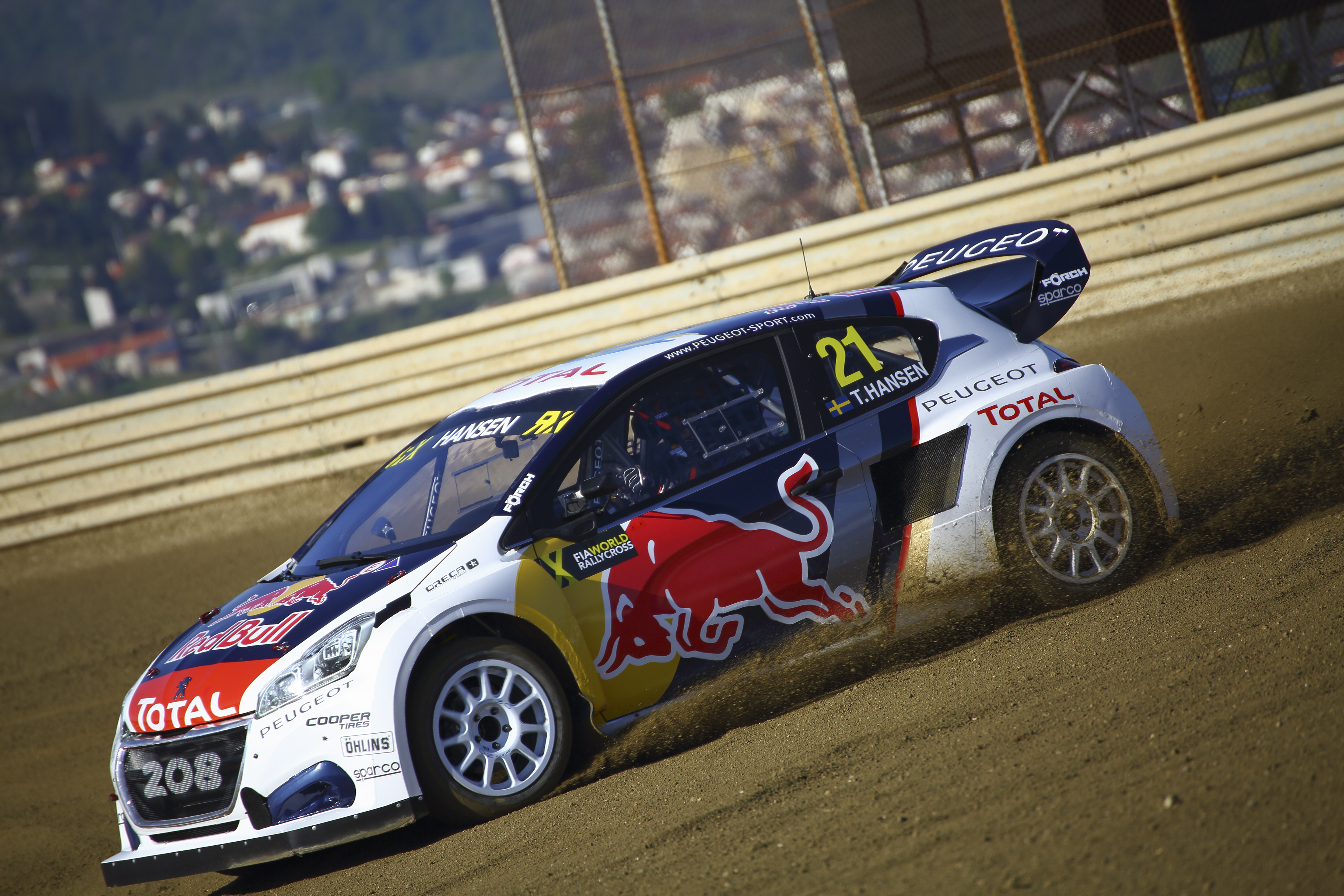 FIA World RX of Portugal 2017 in Montalegre